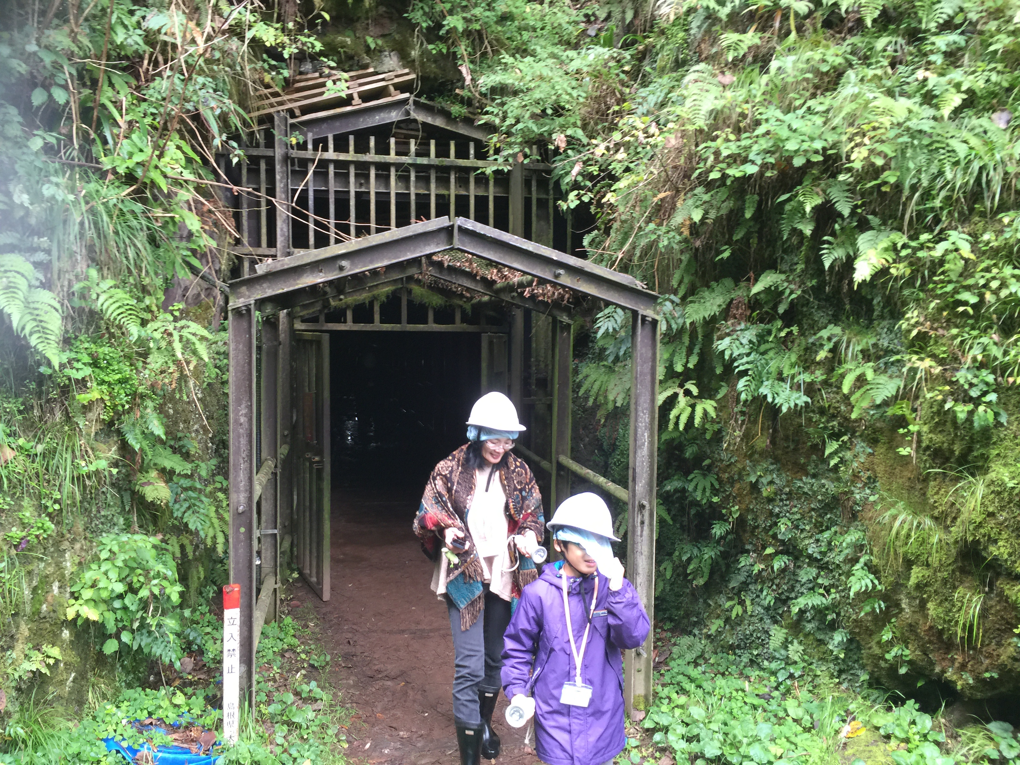 The Iwami Ginzan Silver Mine in the south-west of Honshu Island